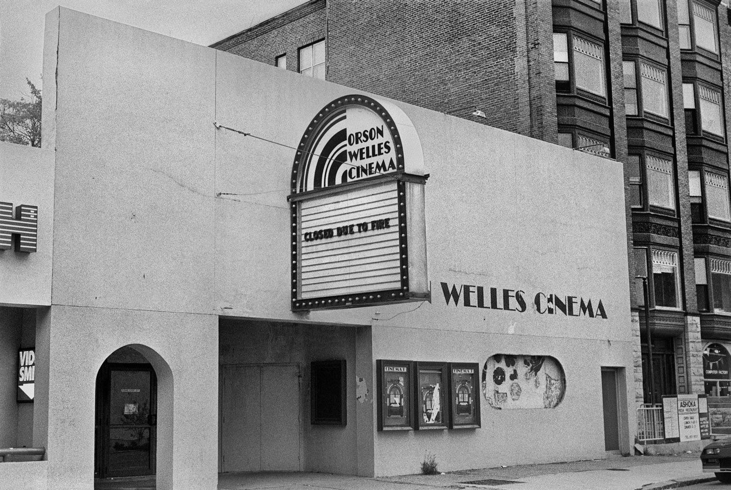 The Orson Welles Cinema on Massachusetts Avenue a few days after an electrical fire caused it to close in May 1986.